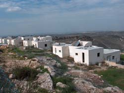 Naale, Israeli settlement in West Bank